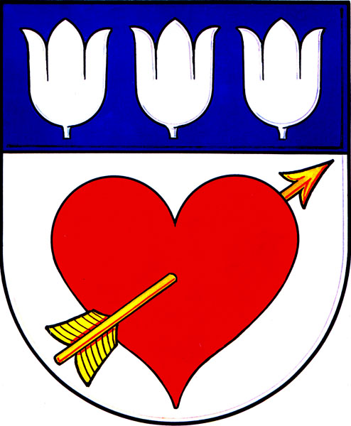 Municipal coat of arms of Liptál village, Vsetín District, Czech Republic.